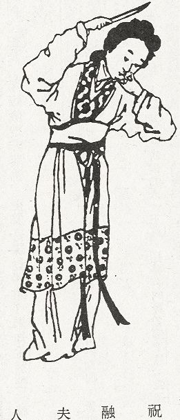 Portrait of the Nanman leader Zhu Rong from a Qing Dynasty edition of The Romance of the Three Kingdoms.